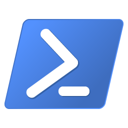 This image shows the computer icon of Windows PowerShell version 5.0.